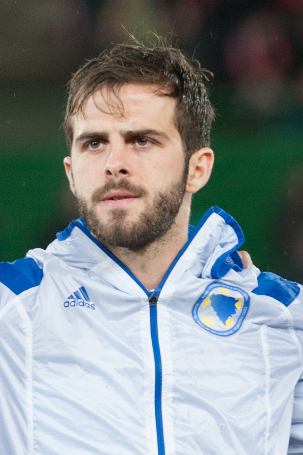 International friendly Austria vs. Bosnia and Herzegovina, 2015-03-31, Vienna